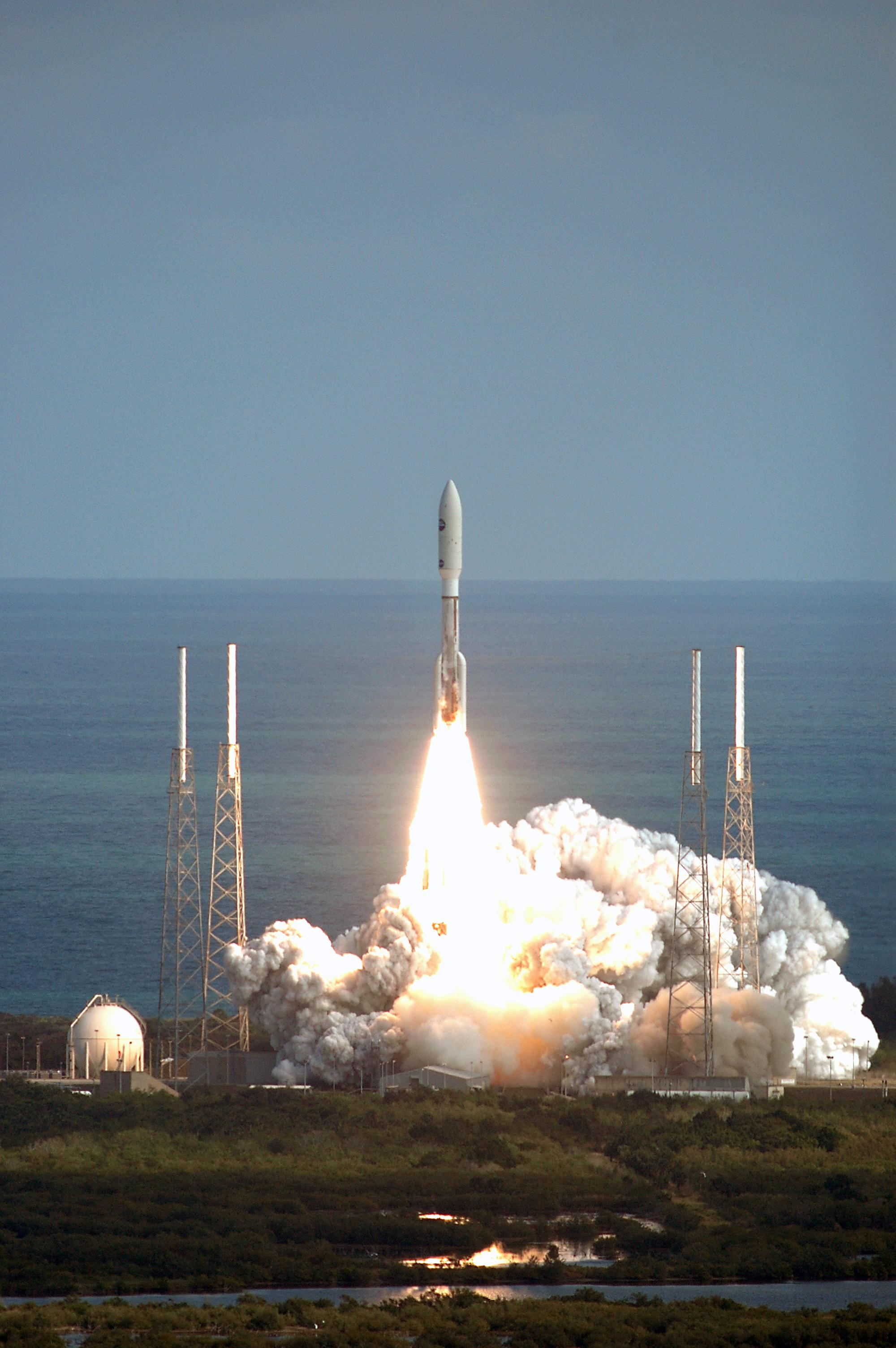 Viewed from the top of the Vehicle Assembly Building at Kennedy Space Center, NASA’s New Horizons spacecraft roars off the launch pad aboard an Atlas V rocket spewing flames and smoke. Liftoff was on time at 2 p.m. EST from Complex 41 on Cape Canaveral Air Force Station in Florida. This was the third launch attempt in as many days after scrubs due to weather concerns. The compact, 1,050-pound piano-sized probe will get a boost from a kick-stage solid propellant motor for its journey to Pluto. New Horizons will be the fastest spacecraft ever launched, reaching lunar orbit distance in just nine hours and passing Jupiter 13 months later. The New Horizons science payload, developed under direction of Southwest Research Institute, includes imaging infrared and ultraviolet spectrometers, a multi-color camera, a long-range telescopic camera, two particle spectrometers, a space-dust detector and a radio science experiment. The dust counter was designed and built by students at the University of Colorado, Boulder. The launch at this time allows New Horizons to fly past Jupiter in early 2007 and use the planet’s gravity as a slingshot toward Pluto. The Jupiter flyby trims the trip to Pluto by as many as five years and provides opportunities to test the spacecraft’s instruments and flyby capabilities on the Jupiter system. New Horizons could reach the Pluto system as early as mid-2015, conducting a five-month-long study possible only from the close-up vantage of a spacecraft.